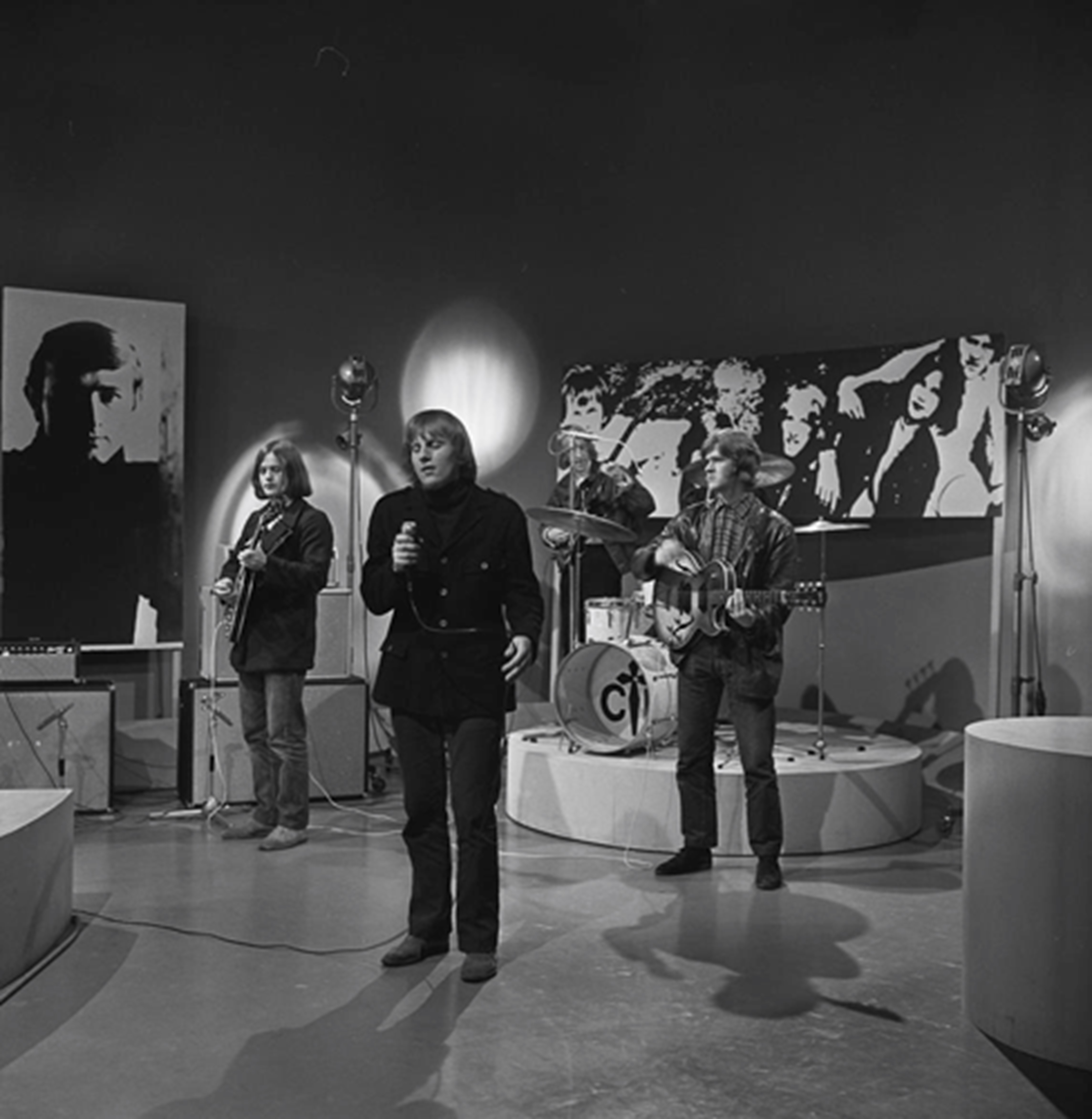 Cuby and the Blizzards performing Cuby and the Blizzards met "You don't know" and "Back home" ". Dutch TV programme "Fanclub". Recording date 15 October 1966, broadcast date 21 October 1966.